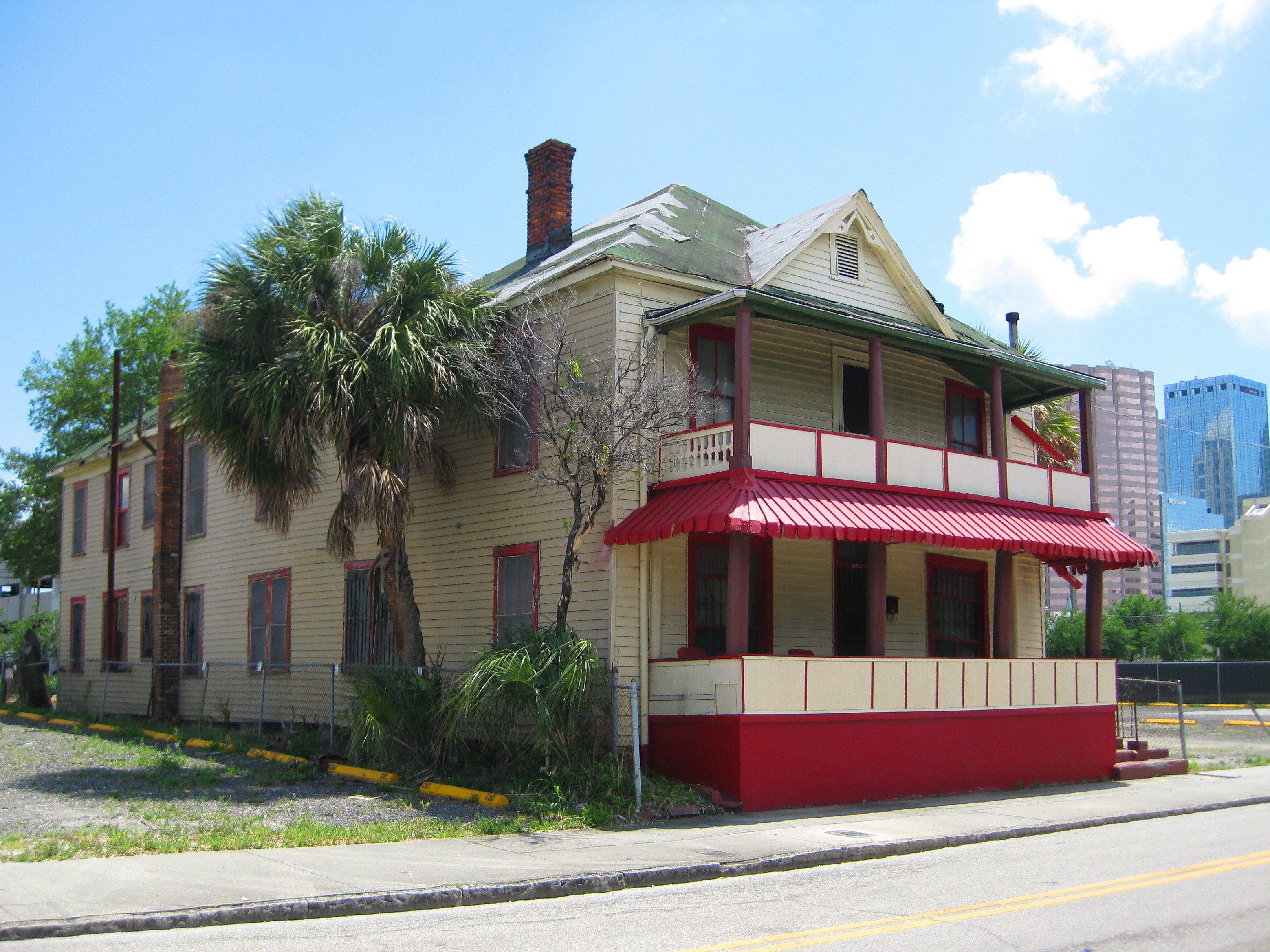 Tampa, Florida's Jackson Rooming House is shown at 851 Zack Street, with downtown skyscrapers towering in the background to the right. The former boarding house is listed with the U.S. National Register of Historic Places.